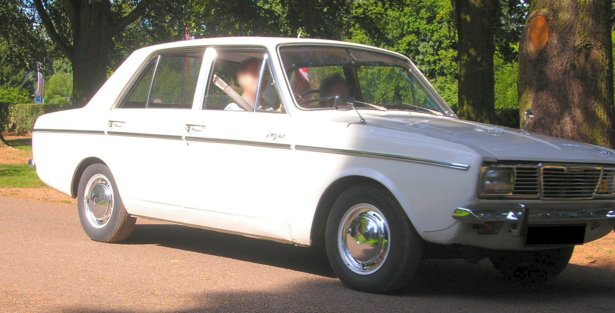 A 1968 Singer Vogue. Photographed at the Coventry Festival of Motoring 2006.